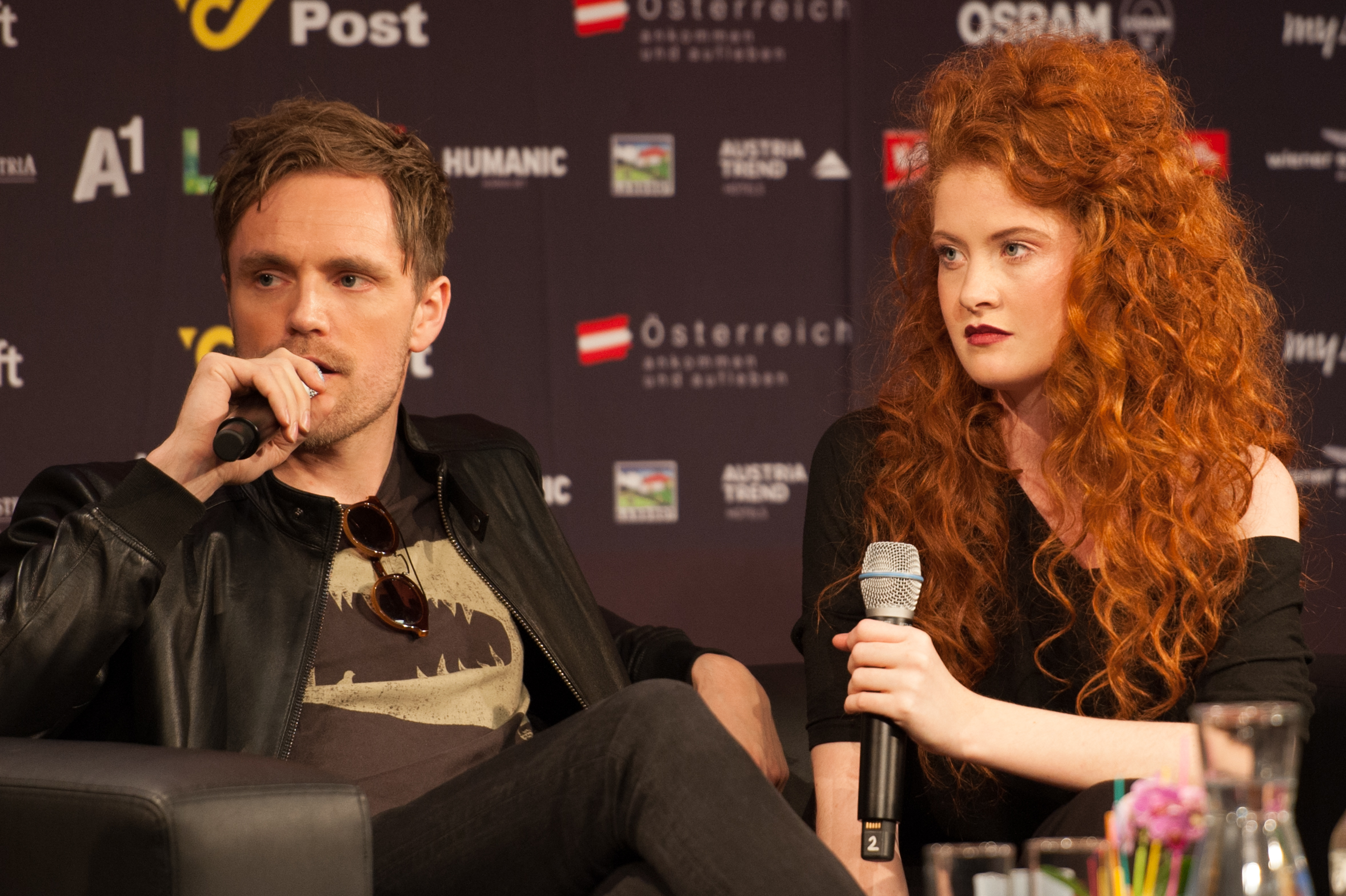 Eurovision Song Contest Vienna 2015: Mørland & Debrah Scarlett